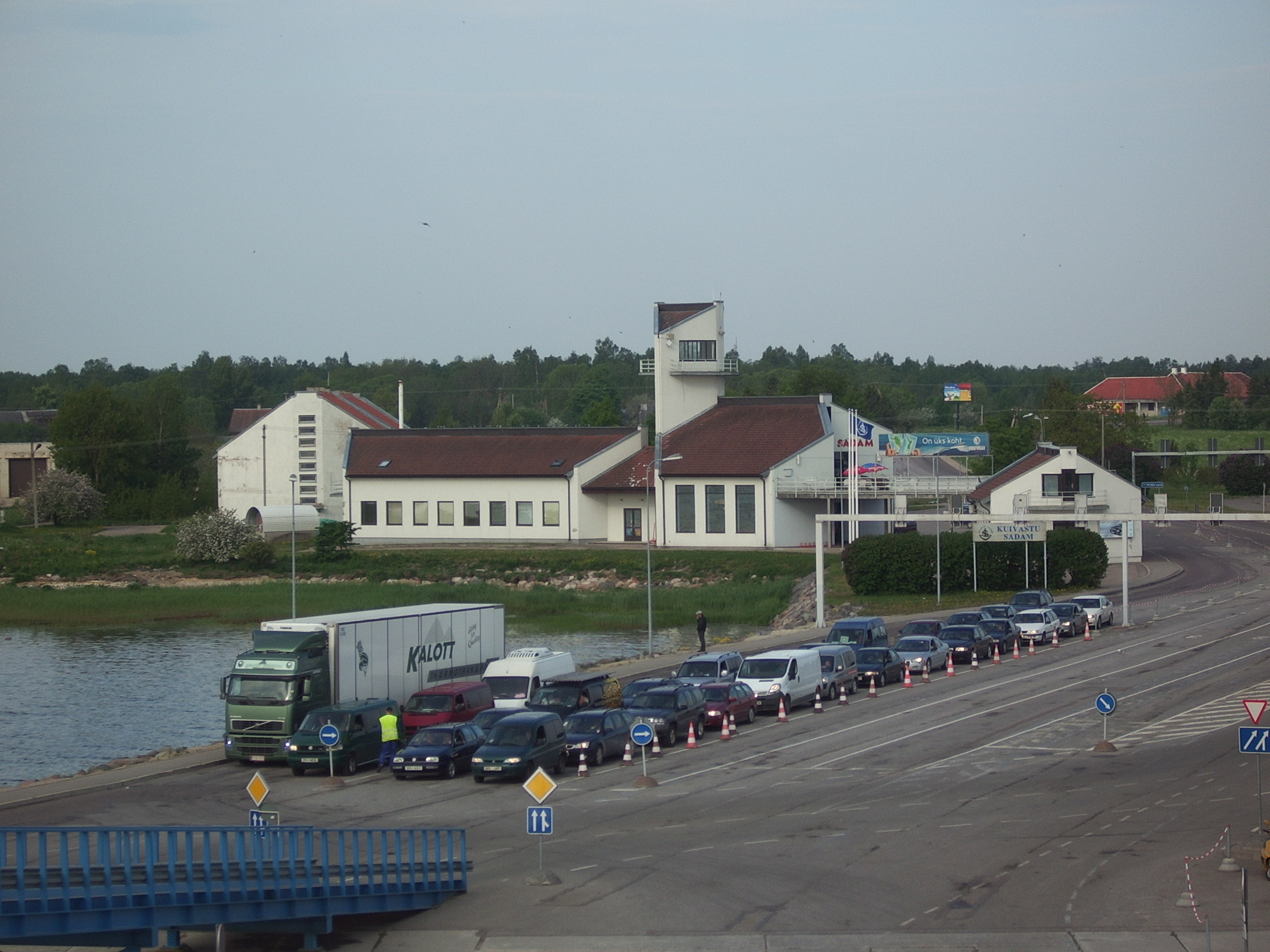 A Port of Kuivastu in Muhu island